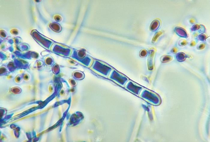 This micrograph reveals both a macroconidium and some microconidia of the fungus Trichophyton rubrum var. rodhaini. Dermatophytic organisms of the genus Trichophyton normally inhabit the soil, humans or animals, and are one of the leading causes of hair, skin and nail infections, or dermatophytosis in humans.